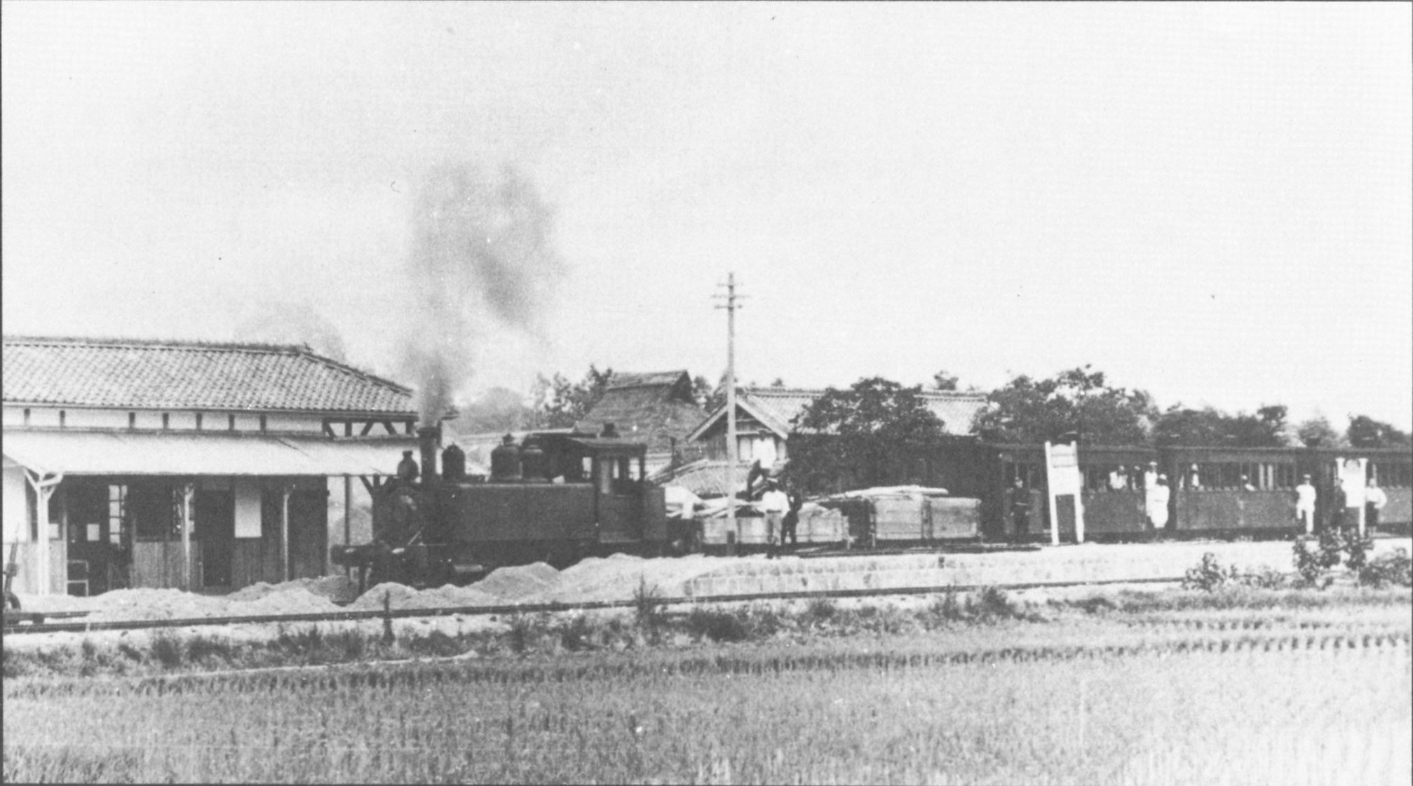 A mixed train pulled by a steam locomotive, at Iga Railway Inako Station